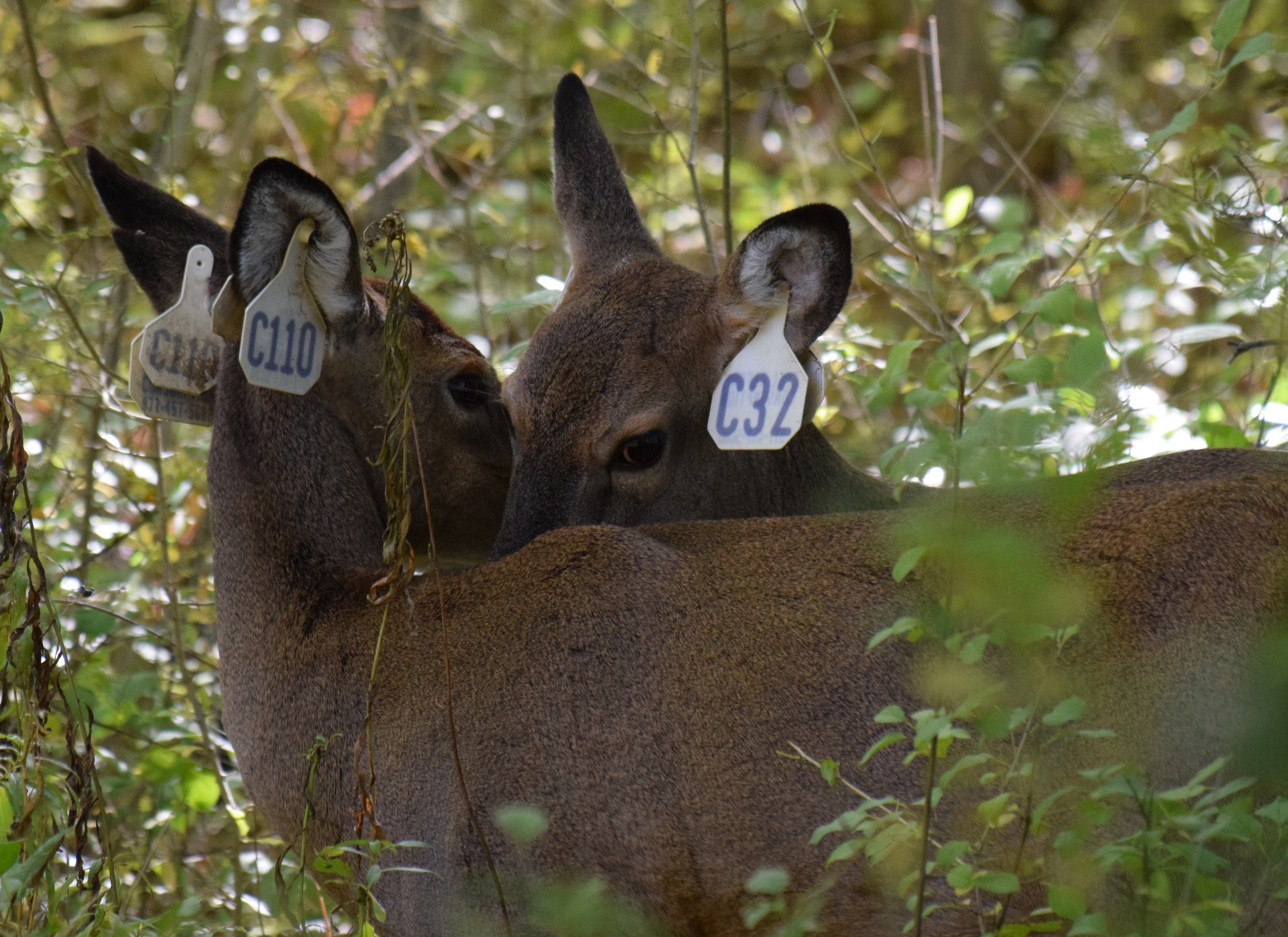 Two white-tailed deer nuzzling in Cayuga Heights, New York